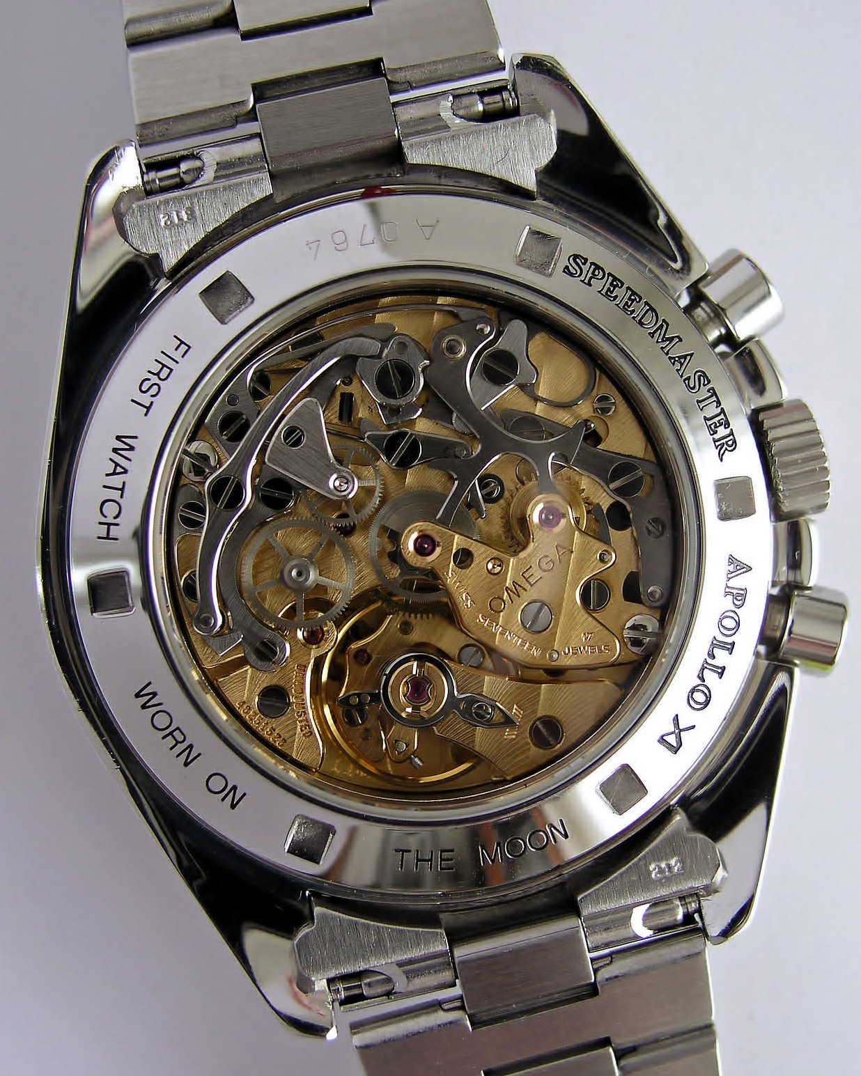 OMEGA Speedmaster Professional, cal. 864 chronometer movement